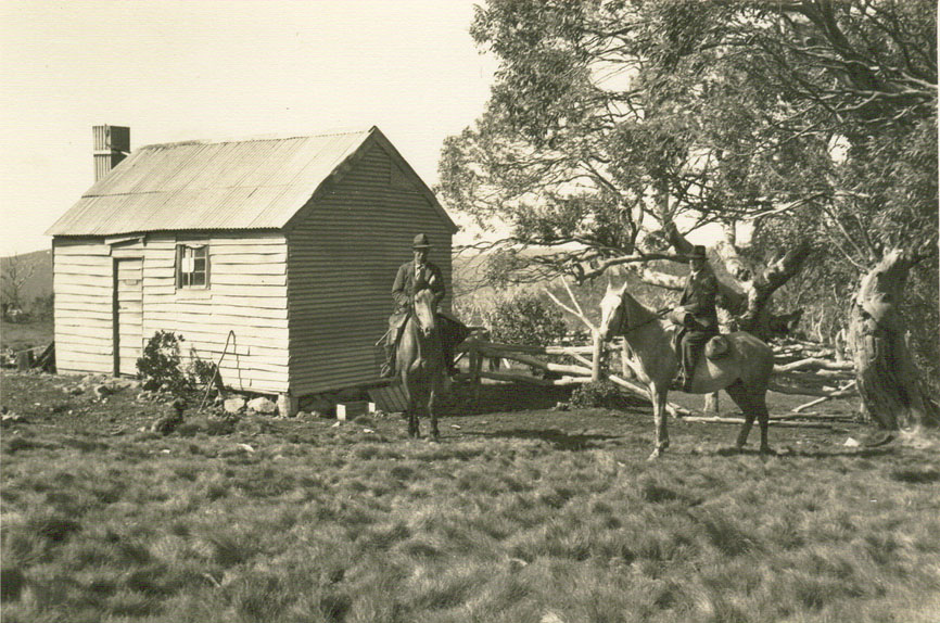 Fitzgeralds_Hut on Bogong High Plains 1940